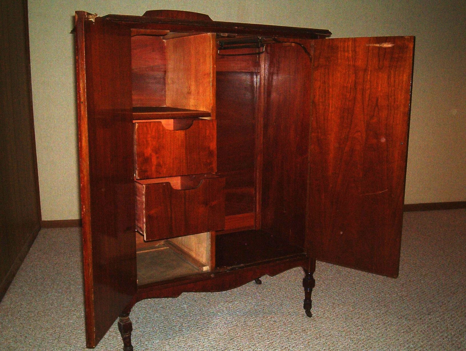 I made this.